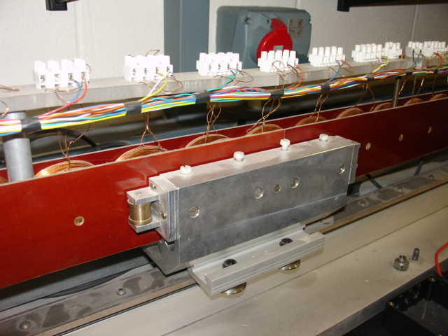 Electromagnetic linear motor - a prototype. Visible copper coils with switch-able current. The travelling element contains a permanent magnet(s).